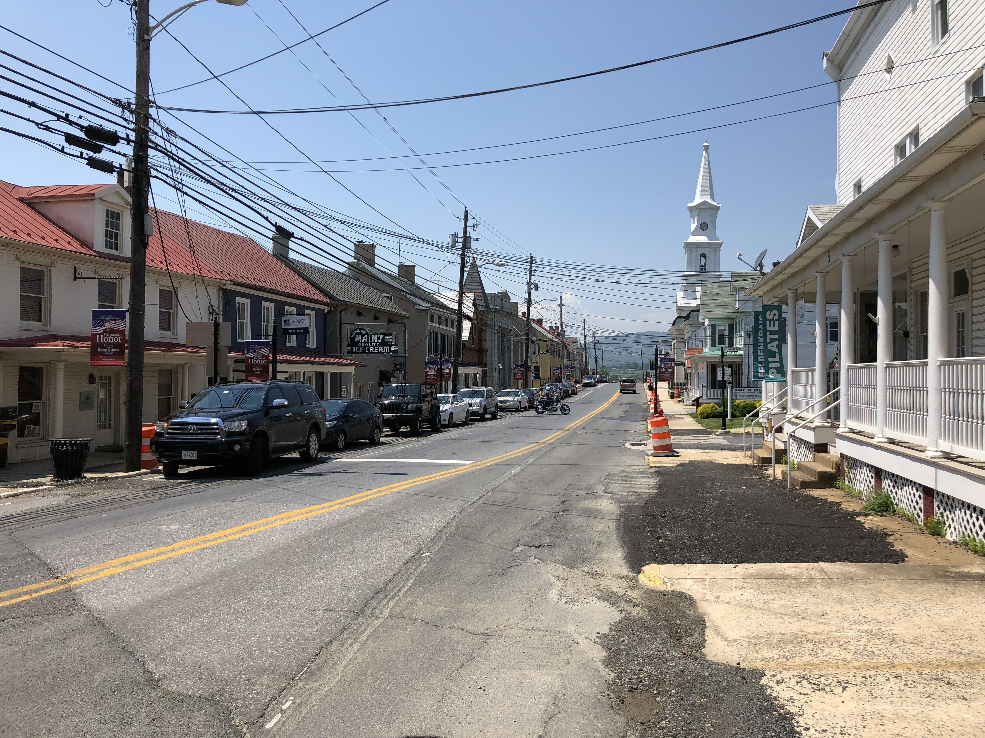 View west along U.S. Route 40 Alternate (Main Street) just west of Maryland State Route 17 (Church Street) in Middletown, Frederick County, Maryland